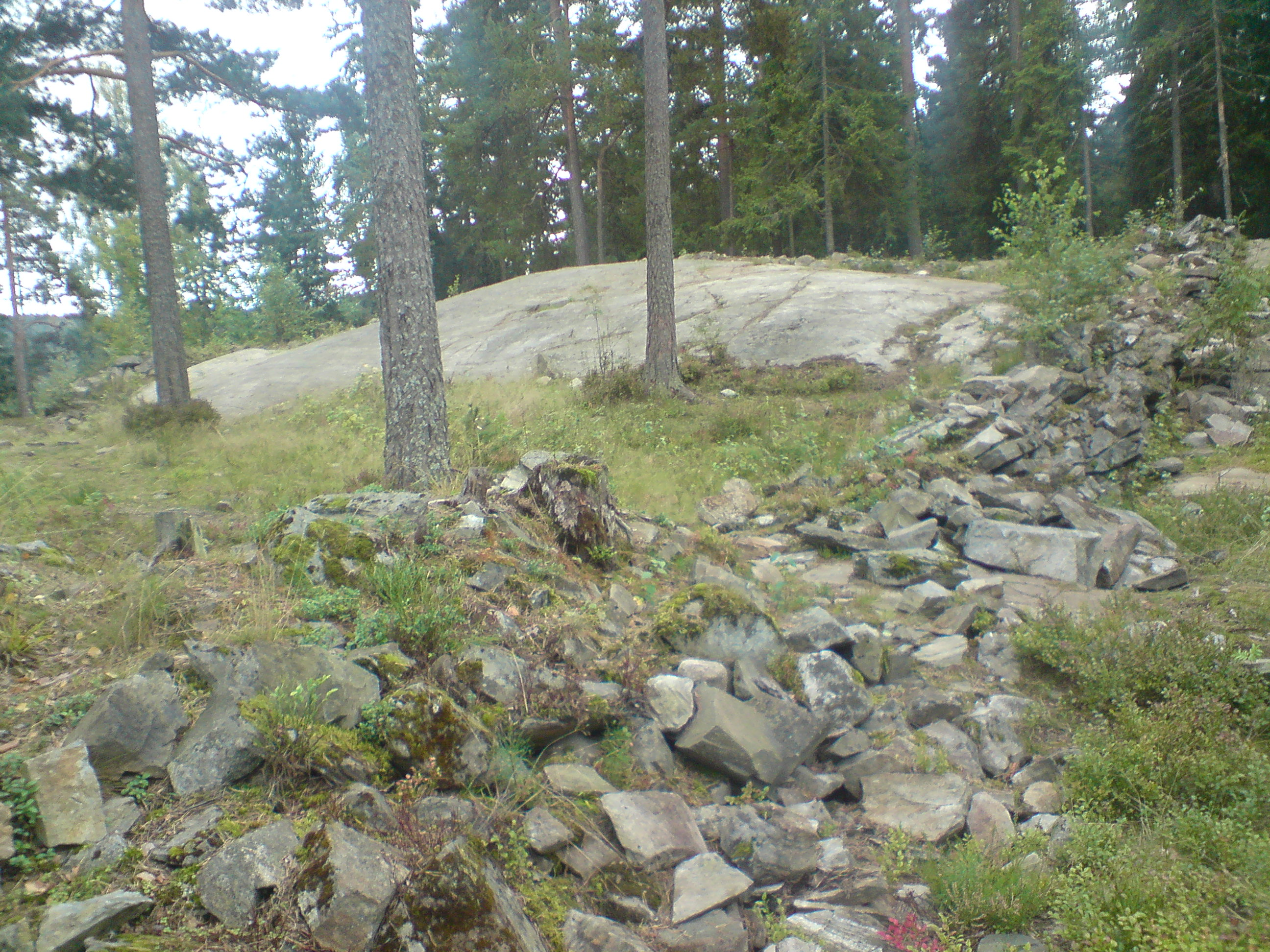 Ruins of sconce at Ellingsrud South from the war towards Sweden in 1716